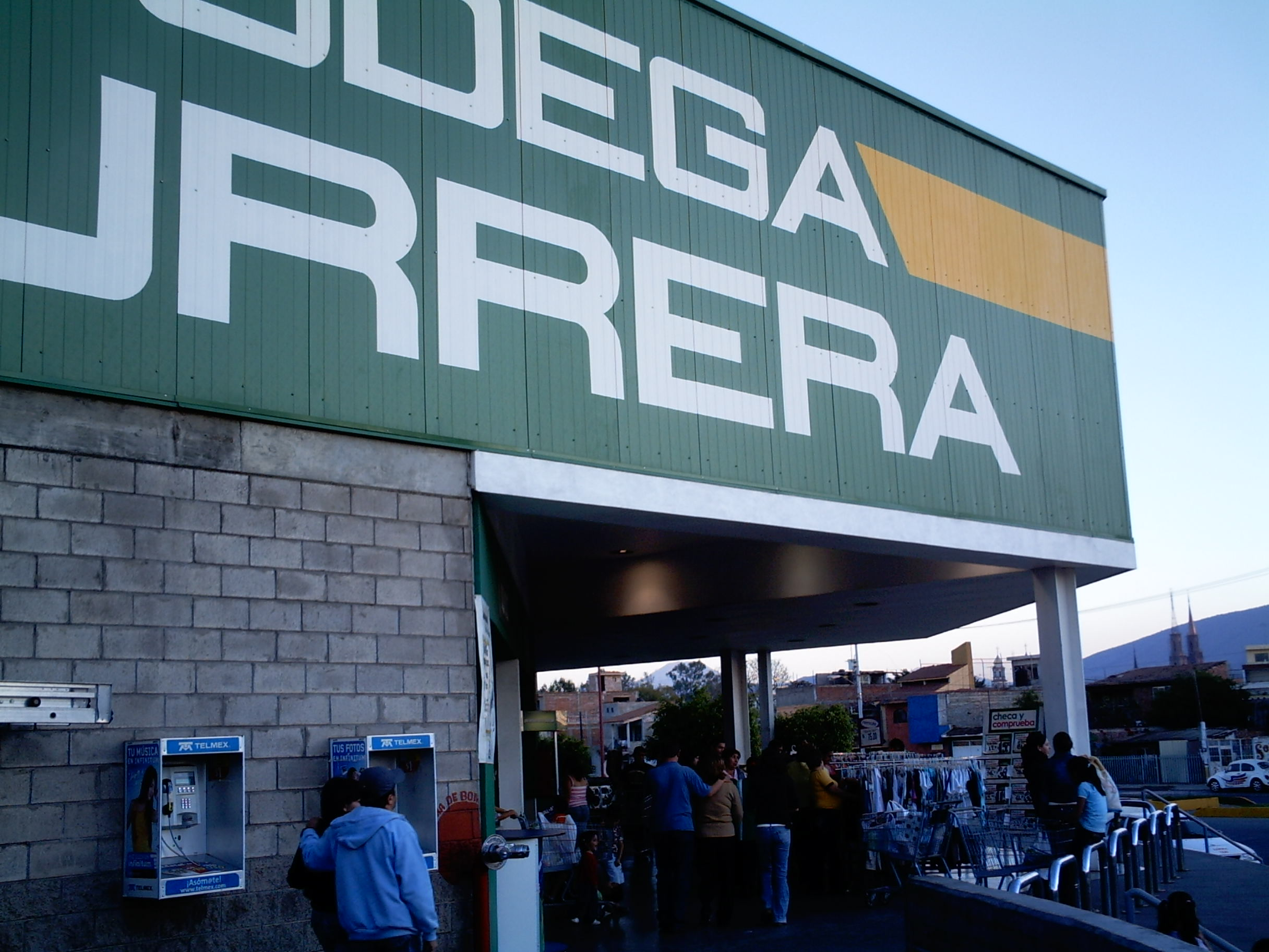 Bodega Aurrerá store in Zamora, Michoacán.